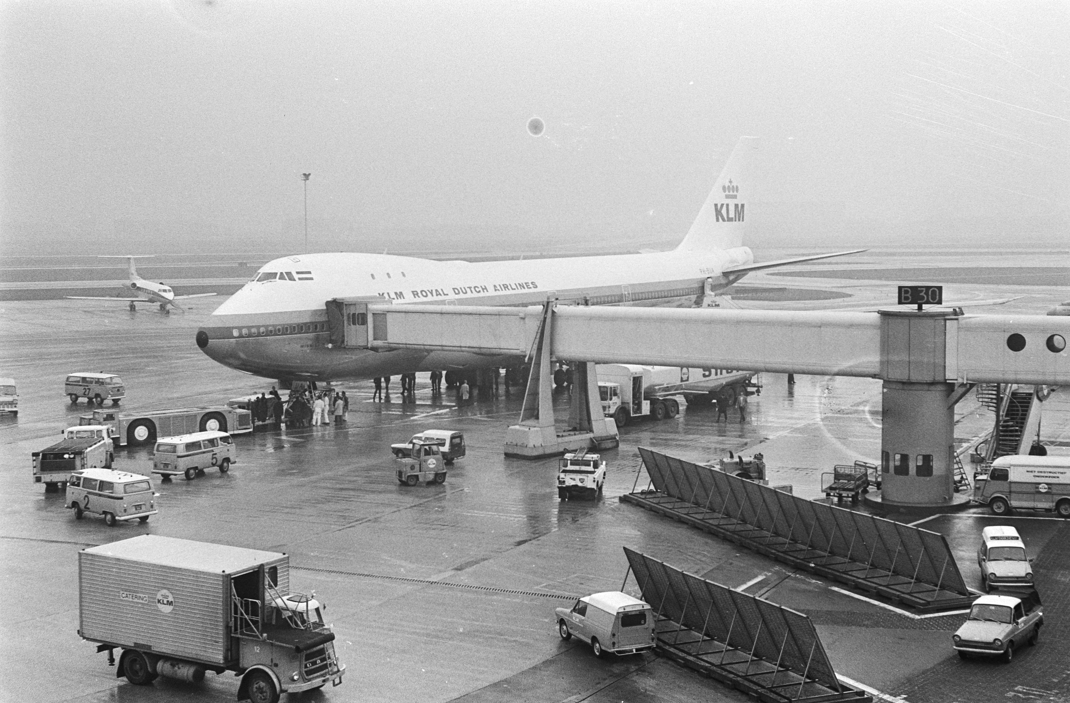 Arrival of first KLM Boeing 747 at Schiphol